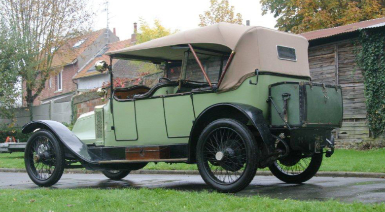 Moynat car trunk